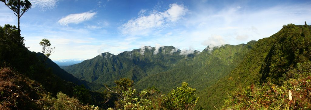 Mount Bosavi, Southern Highlands province, Papua New Guinea